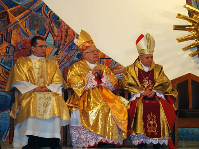 Jozef Michalik Archbishop of Przemyśl and Mieczyslaw Mokrzycki Archbishop of Lwów of the Latins Roman Catholic Church during a statue unveiling ceremony in Saint Gorazdowski's honour at parish Sanok on October 29, 2010 in Sanok, Poland